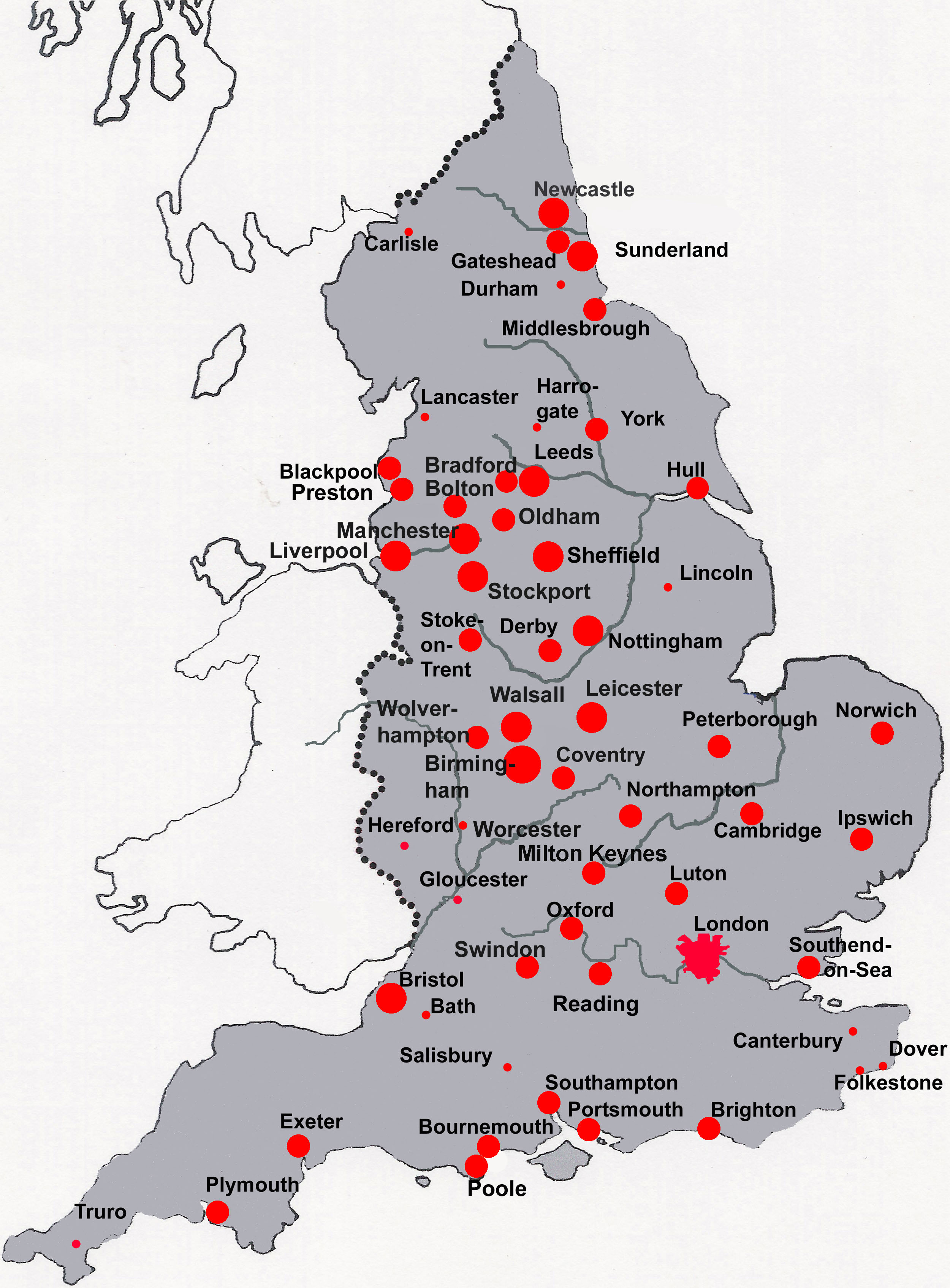 English towns and castels